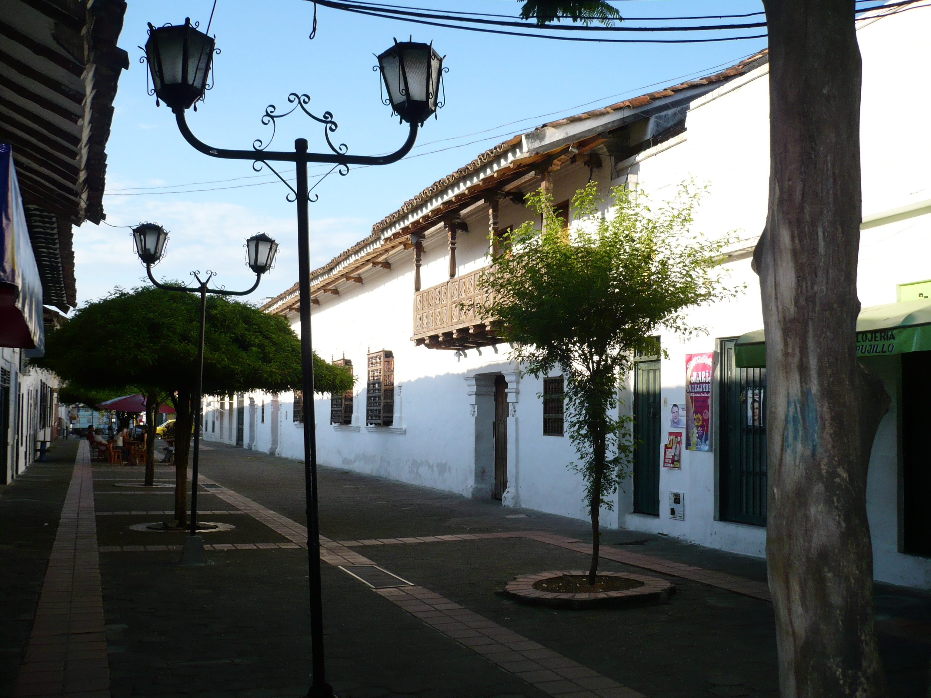 Casa del Virrey. Cartago, Valle, Colombia.